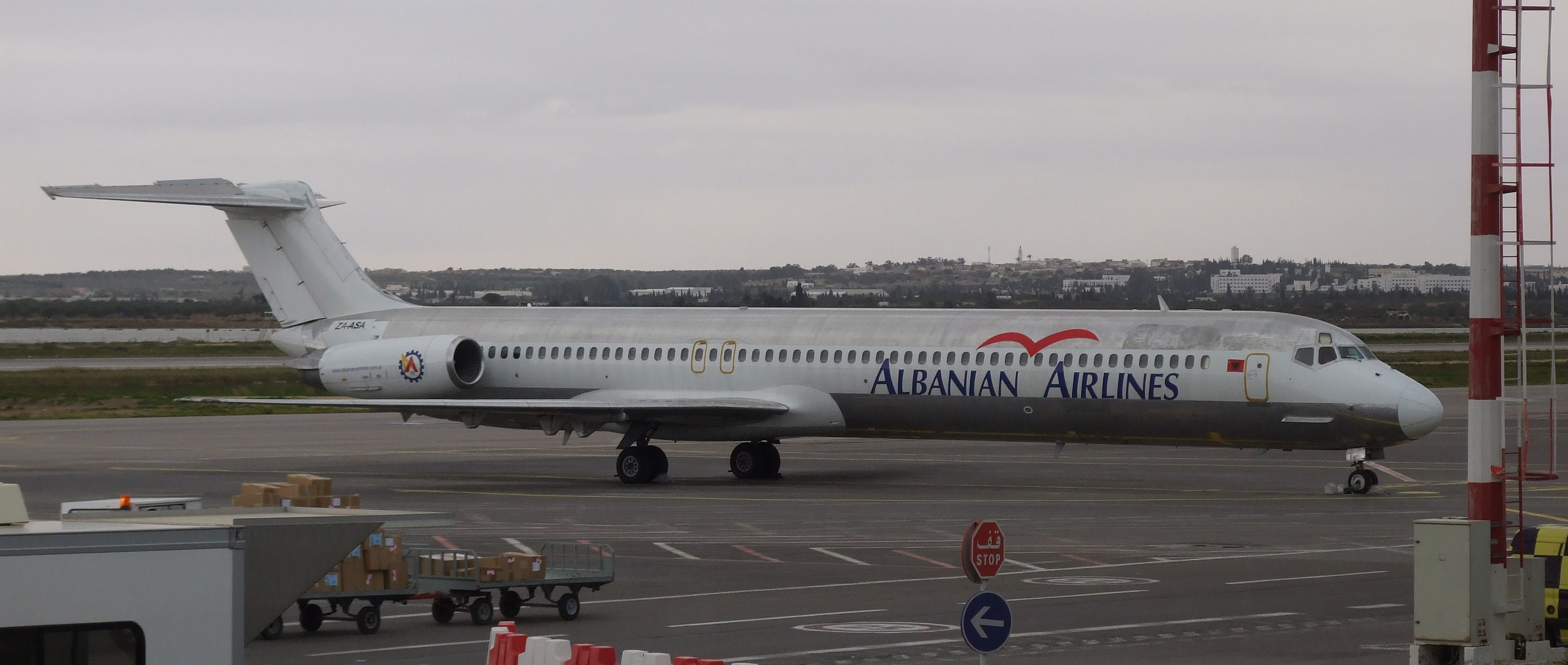 Albanian Airlines, MD-82, Monastir International Airport, March 2009